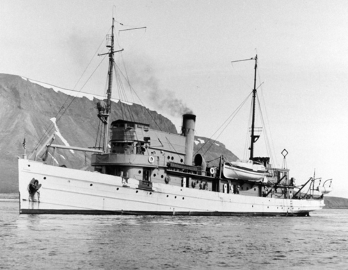 United States Coast and Geodetic Survey survey ship USC&GS Discoverer in Territory of Alaska waters